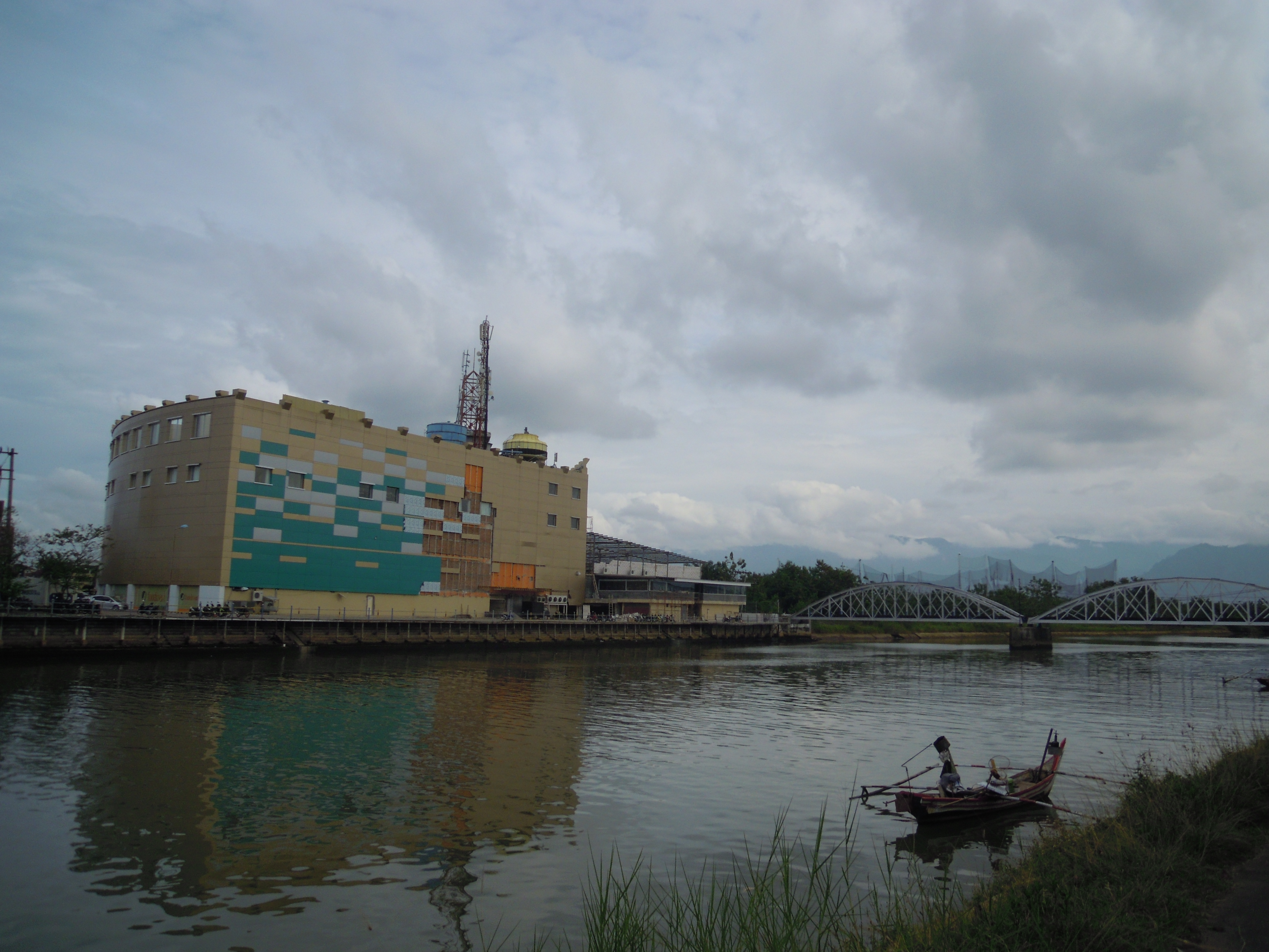 Batang Kuranji river with Basko Grand Mall background, Padang, West Sumatra, Indonesia